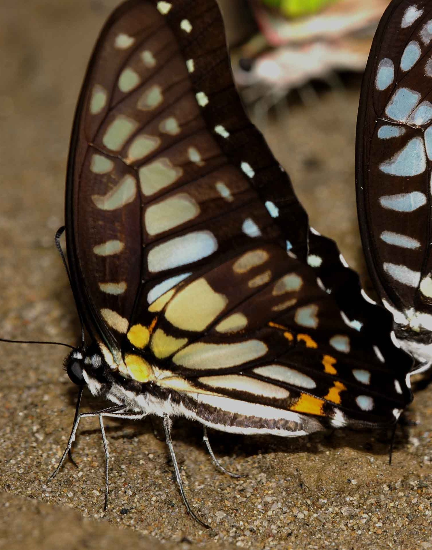 Veined Jay Graphium chiron (left) and Common Jay Graphium doson (right) Family Papilionidae, Lepidoptera